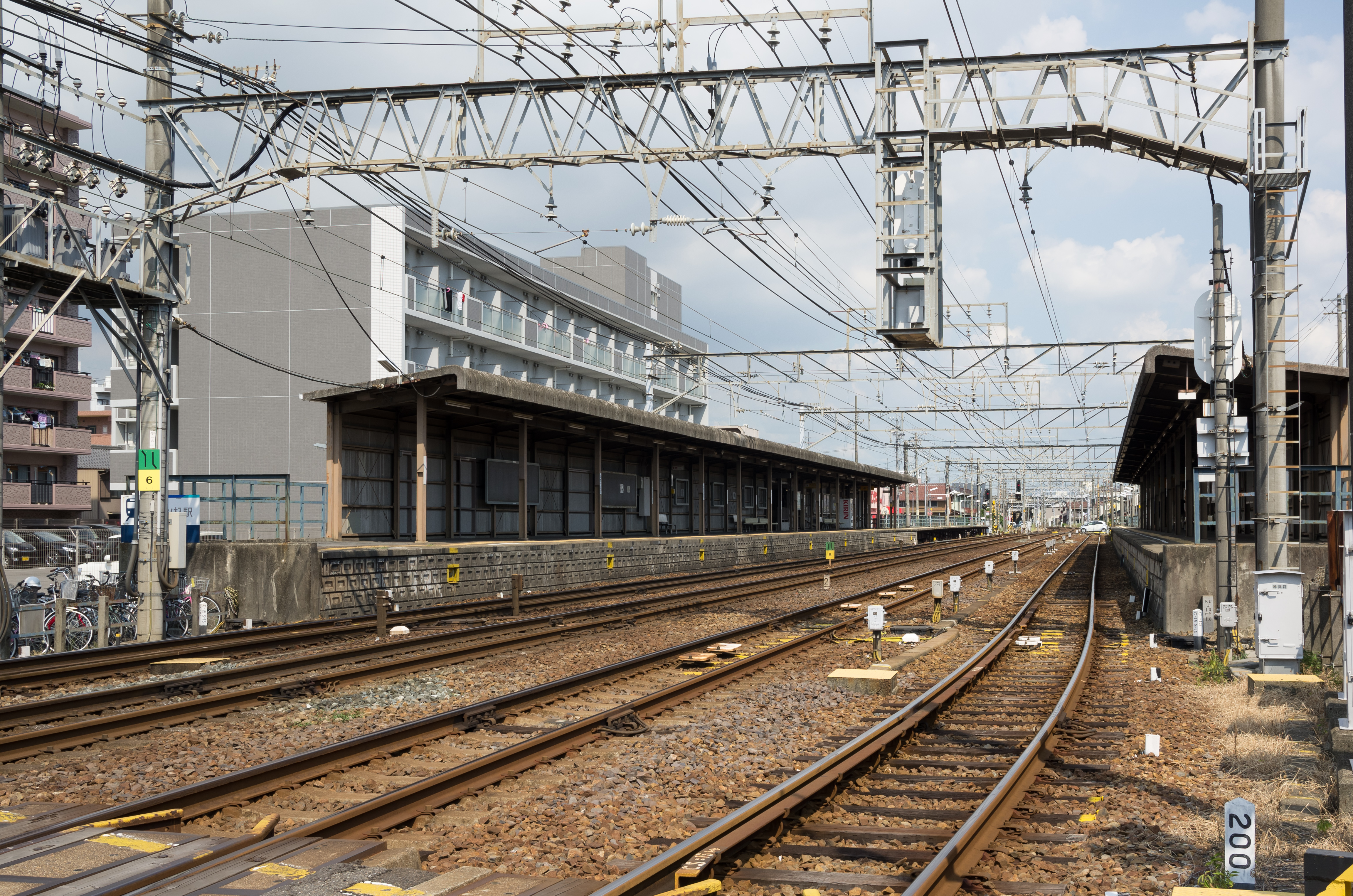 Platforms and Tracks of Futatsu-iri Station.